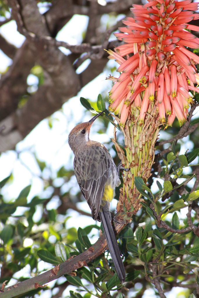 A Gurney's Sugarbird feeding on Aloe nectar in South Africa.